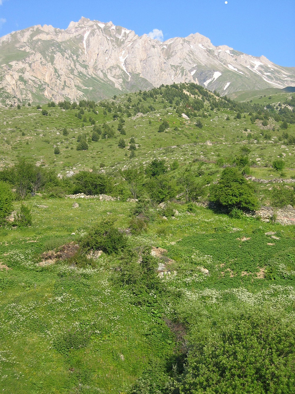 The Korab Mountain range seen from the Albanian side at Kala e Dodës (Radomira). The top (Maja e Korabit) is on the right in the back, marked by a small white dot on the top of the image.